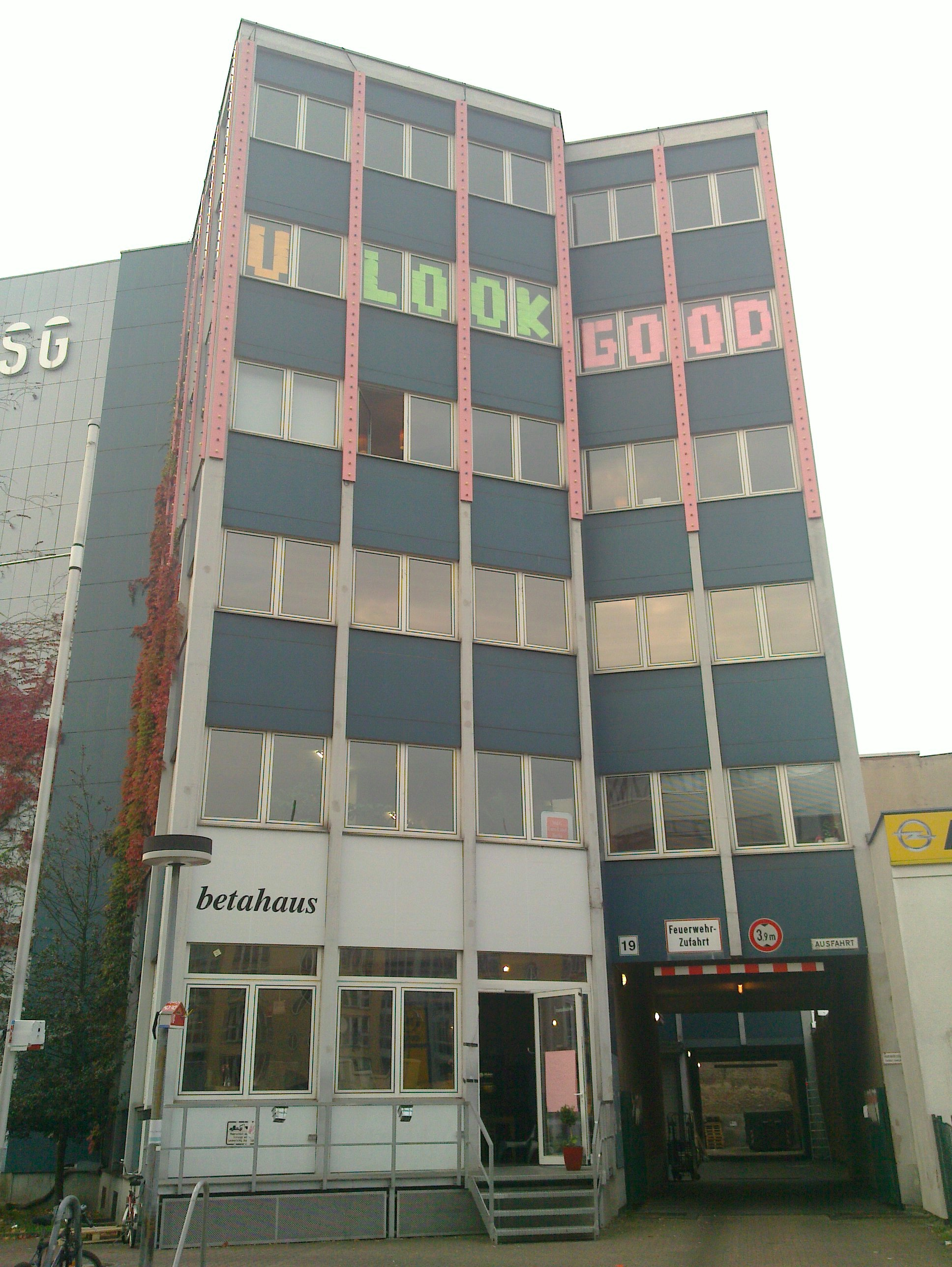 Betahaus building façade in Berlin